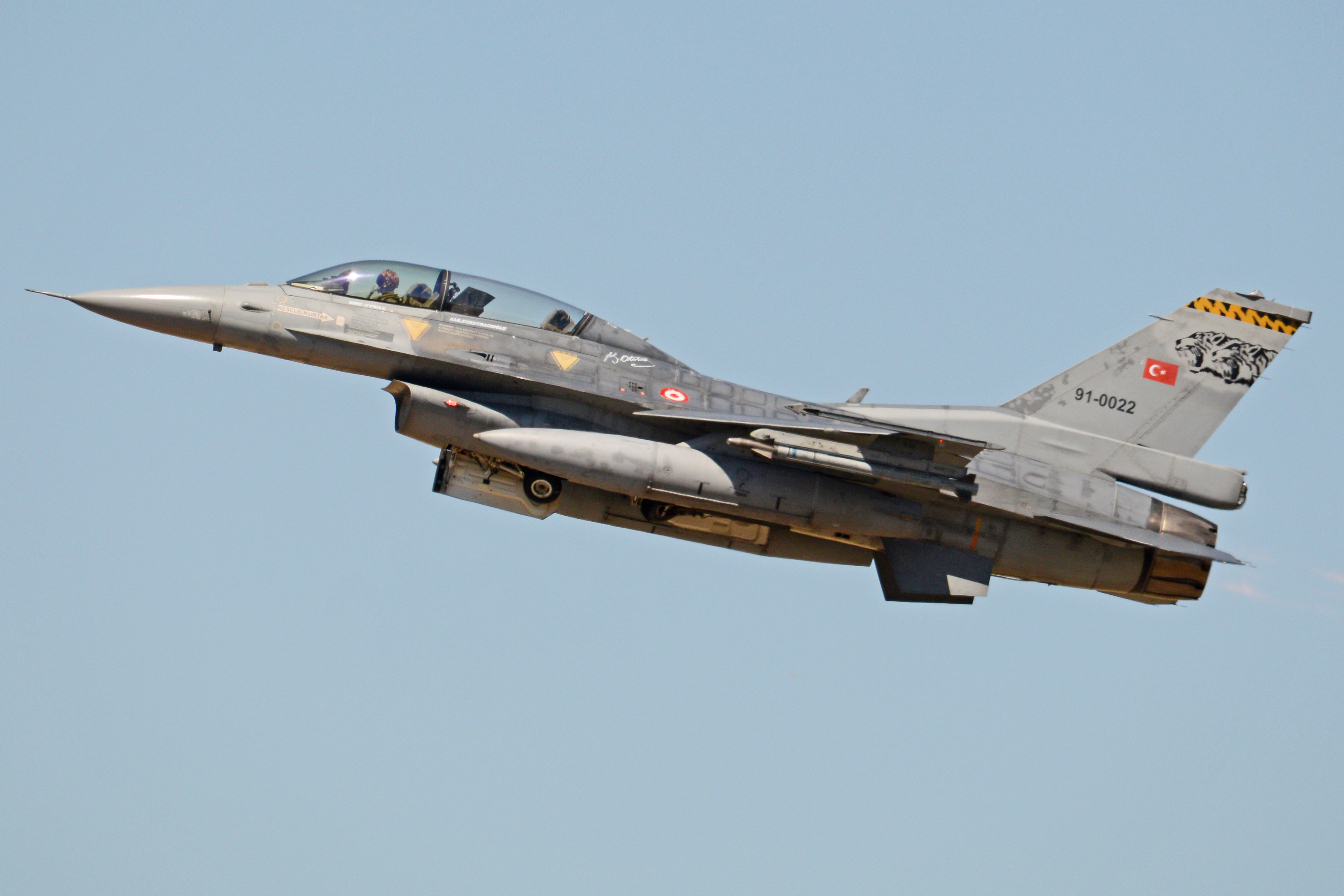 c/n 4S-19. Allocated US military serial 91-0022. Operated by 192 Filo, Turkish Air Force, based at Balikesir. Seen during the 2016 NATO Tiger Meet (NTM) held at Zaragoza Air Base, Spain. 20th May 2016